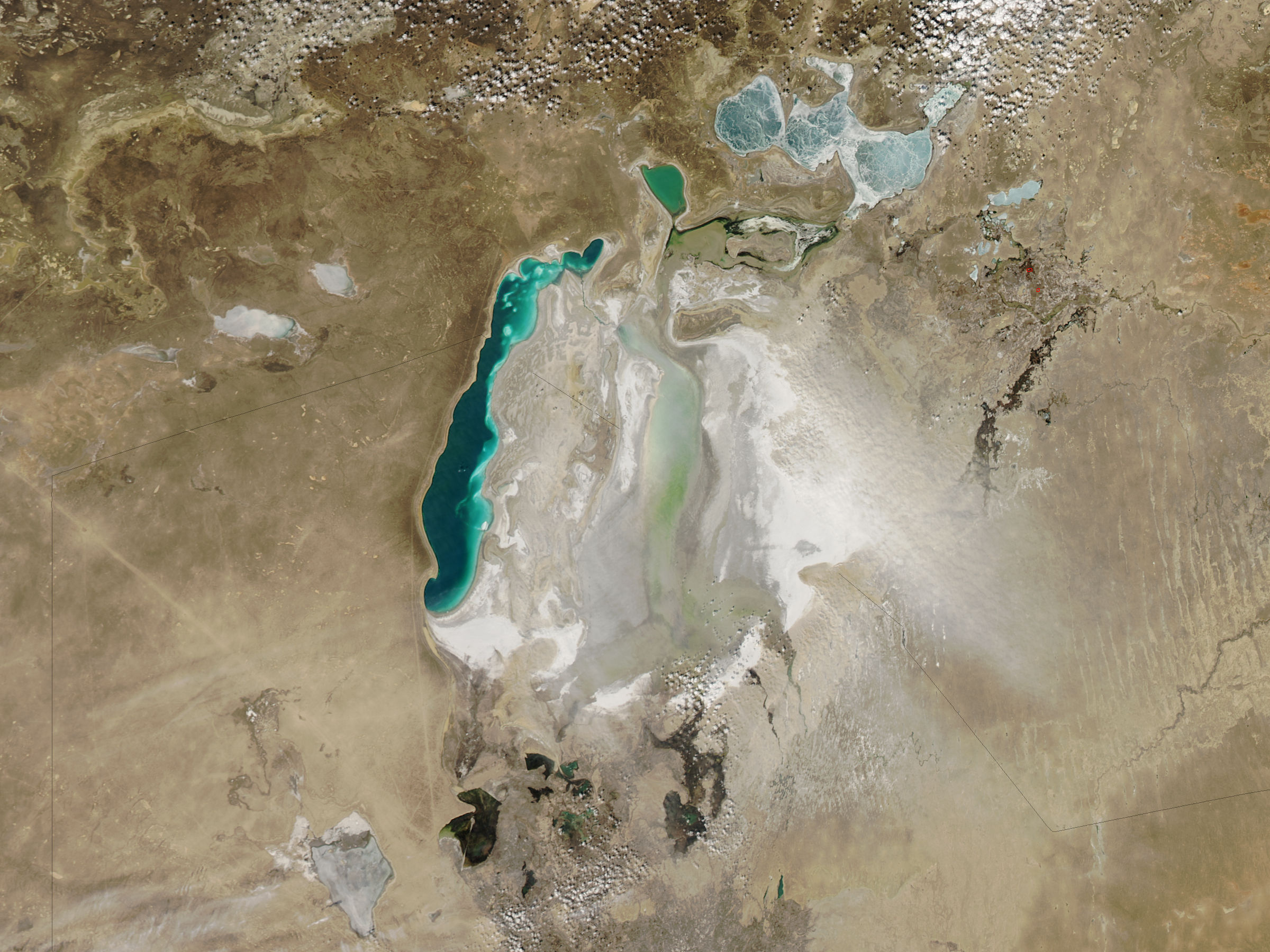 Dust plumes rose from desiccated lakebed sediments of the Aral Sea in late March 2010. The MODIS on NASA’s Aqua satellite captured this true-color image on March 26, 2010. A pale beige plume of dust blows from the sediments of the South Aral Sea toward the southeast, along the Kazakhstan-Uzbekistan border. Northeast of the plume, two red outlines indicate hotspots associated with fires.